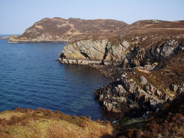 West coast Isle of Ewe The coast changes character from flat pebbly beaches to heather topped sandstone cliffs. Isle of Ewe/Eilean Iubh, Scotland